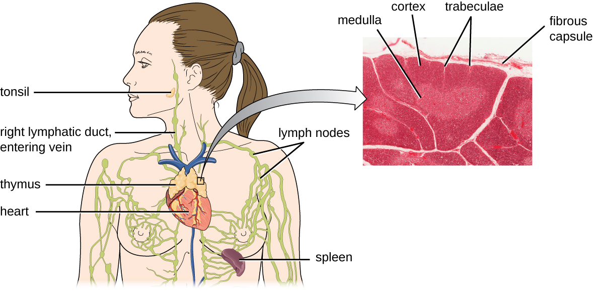 Name: Microbiology ID: Language: English Summary: Subjects: Science and Technology Keywords: Print Style: License: Creative Commons Attribution License (by 4.0) Authors: OpenStax Microbiology Copyright Holders: OpenStax Microbiology Publishers: OpenStax Microbiology Latest Version: 4.4 First Publication Date: Oct 17, 2016 Latest Revision: Nov 11, 2016 Last Edited By: OpenStax Microbiology